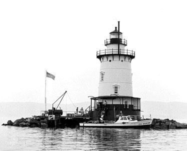 TARRYTOWN (KINGSLAND POINT) LIGHT State: NEW YORK Location: HUDSON RIVER SOUTH OF KINGSLAND Nearest City: SLEEPY HOLLOW County: WESTCHESTER U.S.C.G. District: 1 Year Station Established: 1883